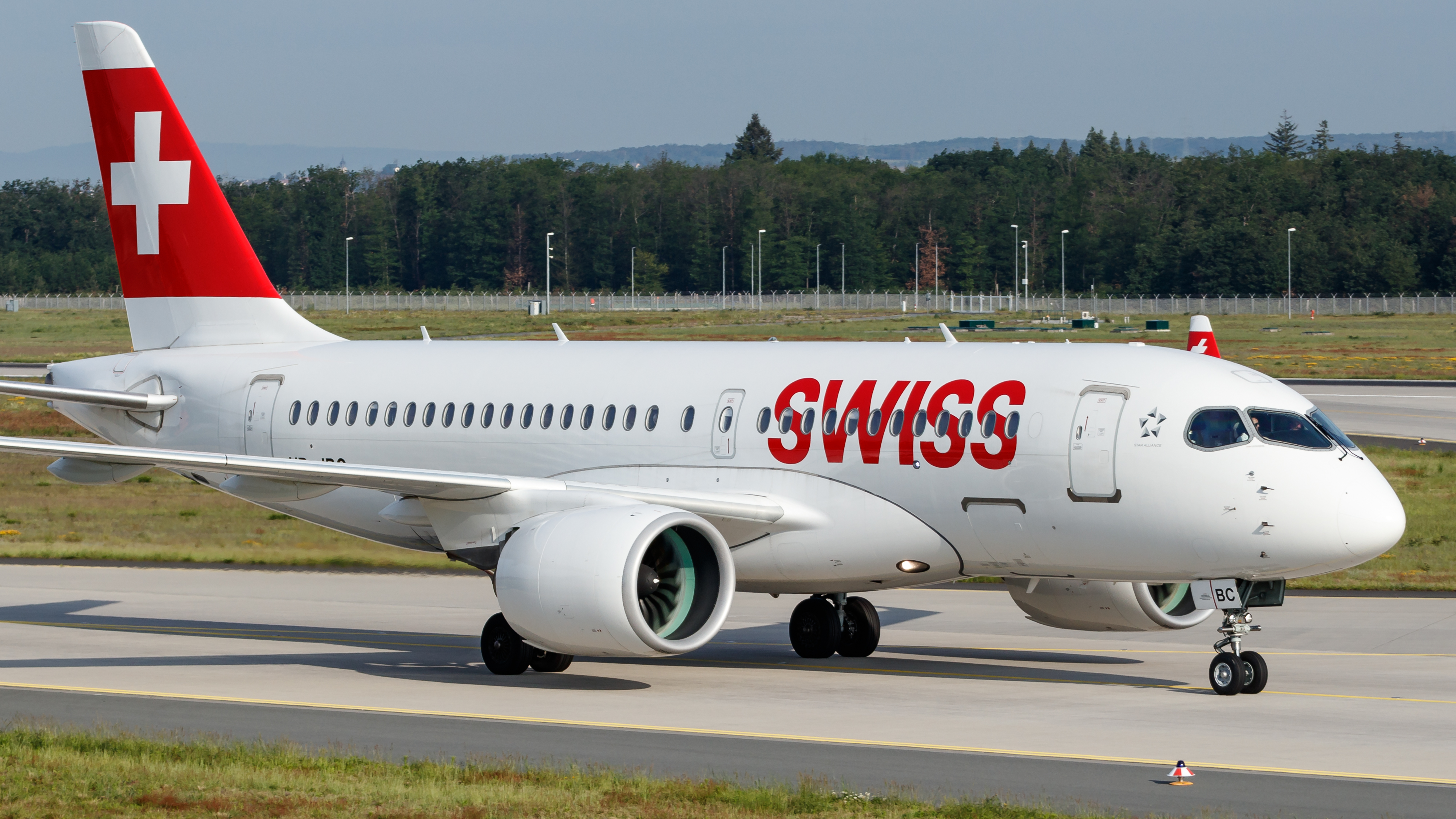 HB-JBC Swiss A220 FRA